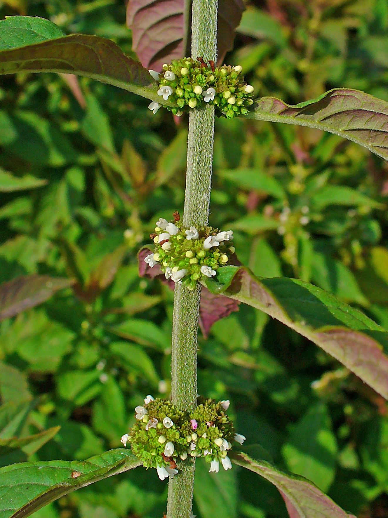 Lycopus virginicus, Lamiaceae, Virginian Gypsywort, inflorescences. The fresh, aerial parts collected at bloom are used in homeopathy as remedy: Lycopus virginicus (Lycps.)